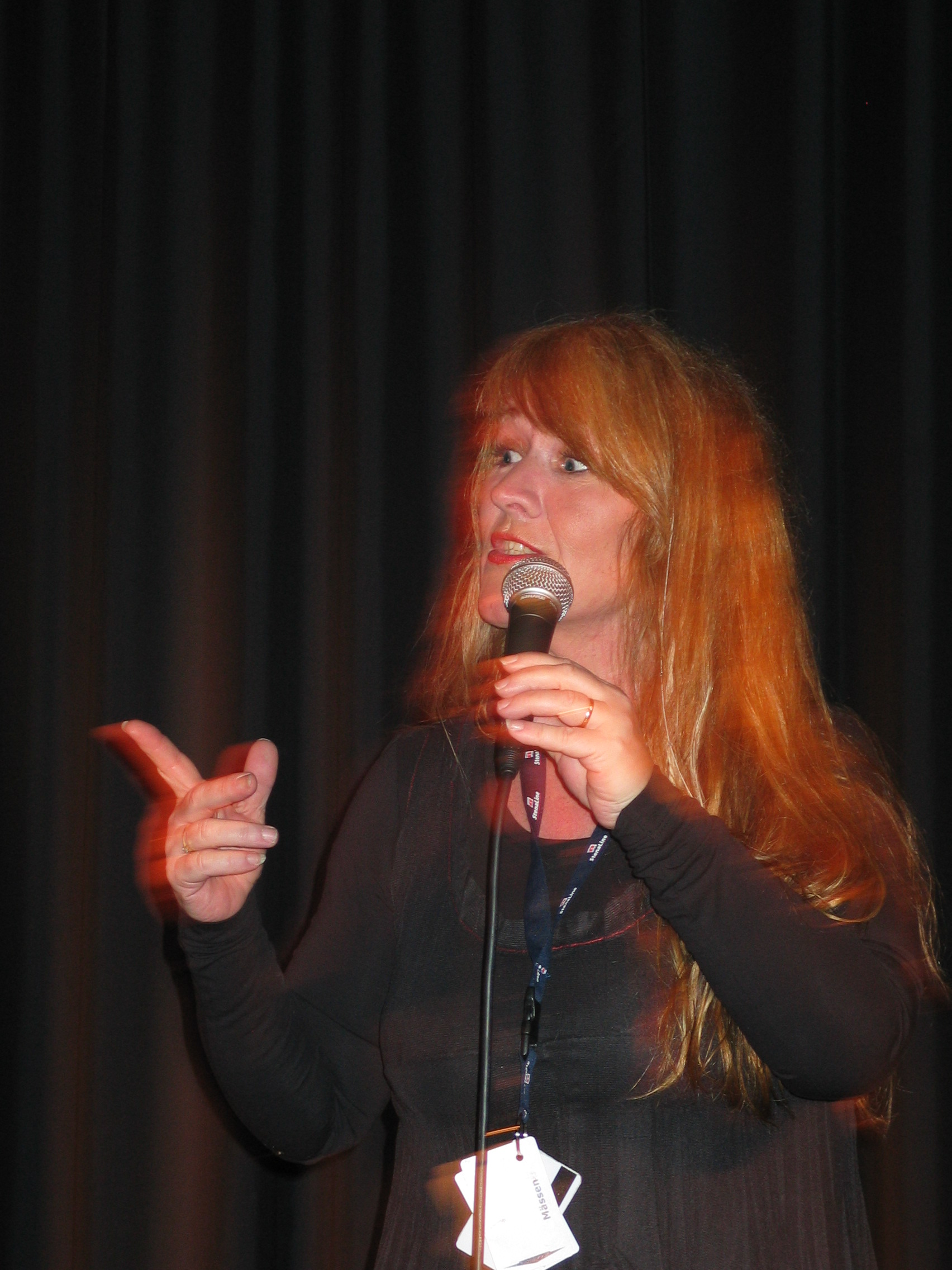 Eli Rygg, famous from Portveien 2 at NRK (Norwegian Broadcasting Corporation) entertains children at the ship Stena saga.